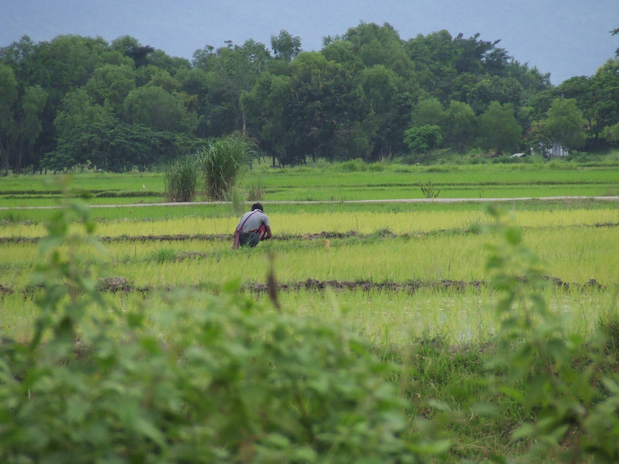 Worker in a field in Kalaymyo (appears to be a rice paddy?)